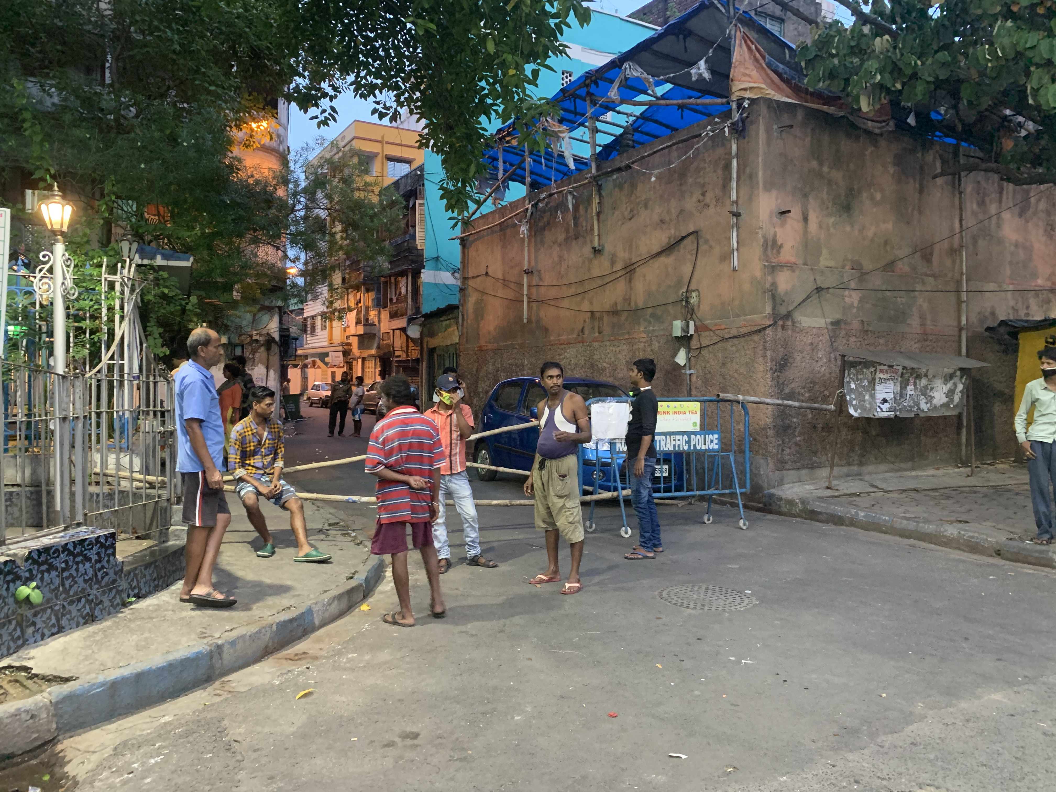 Blocking of street during Corona crisis in Kolkata, West Bengal, India.